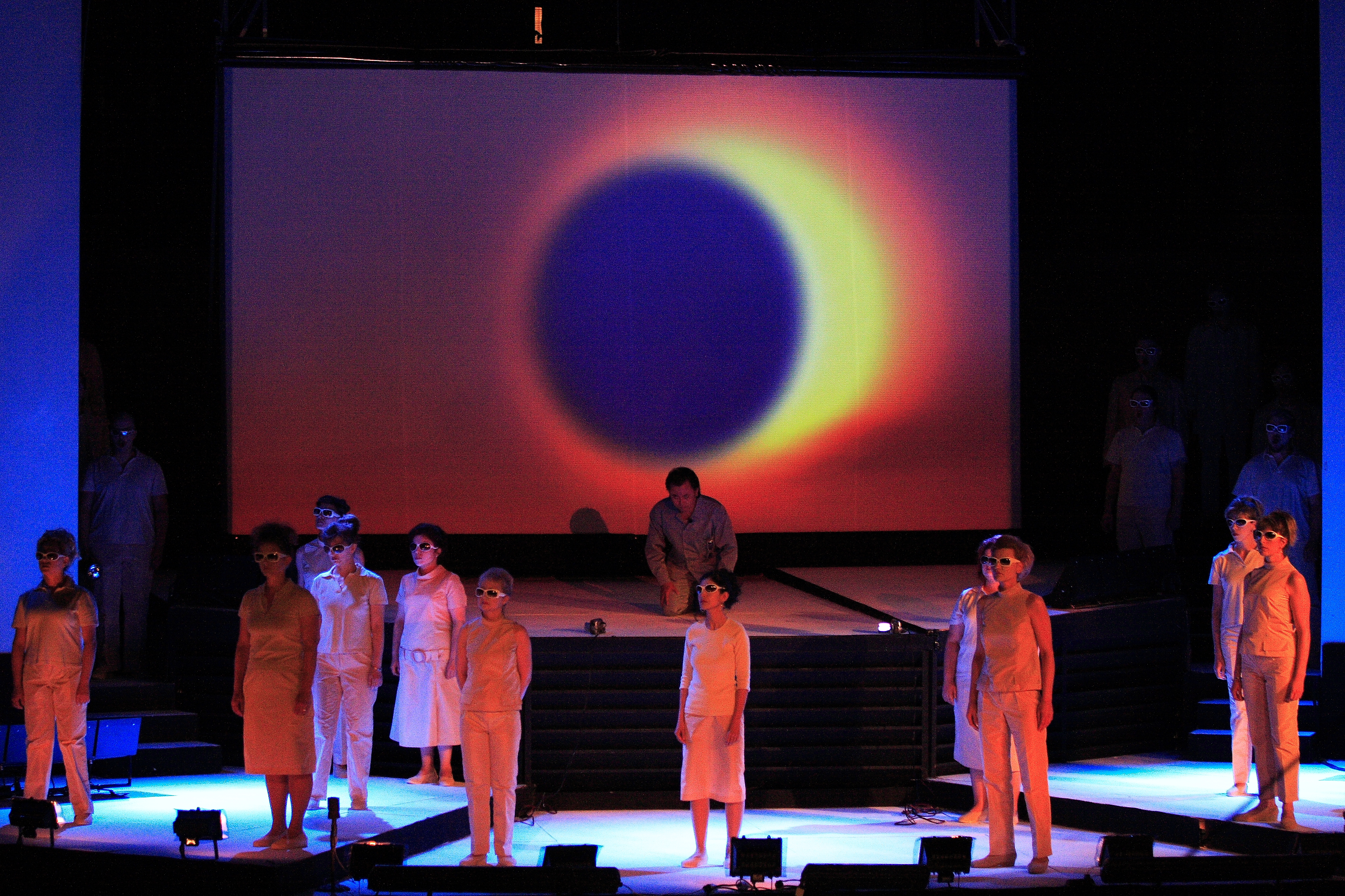 Carmina Burana State Opera Stara Zagora